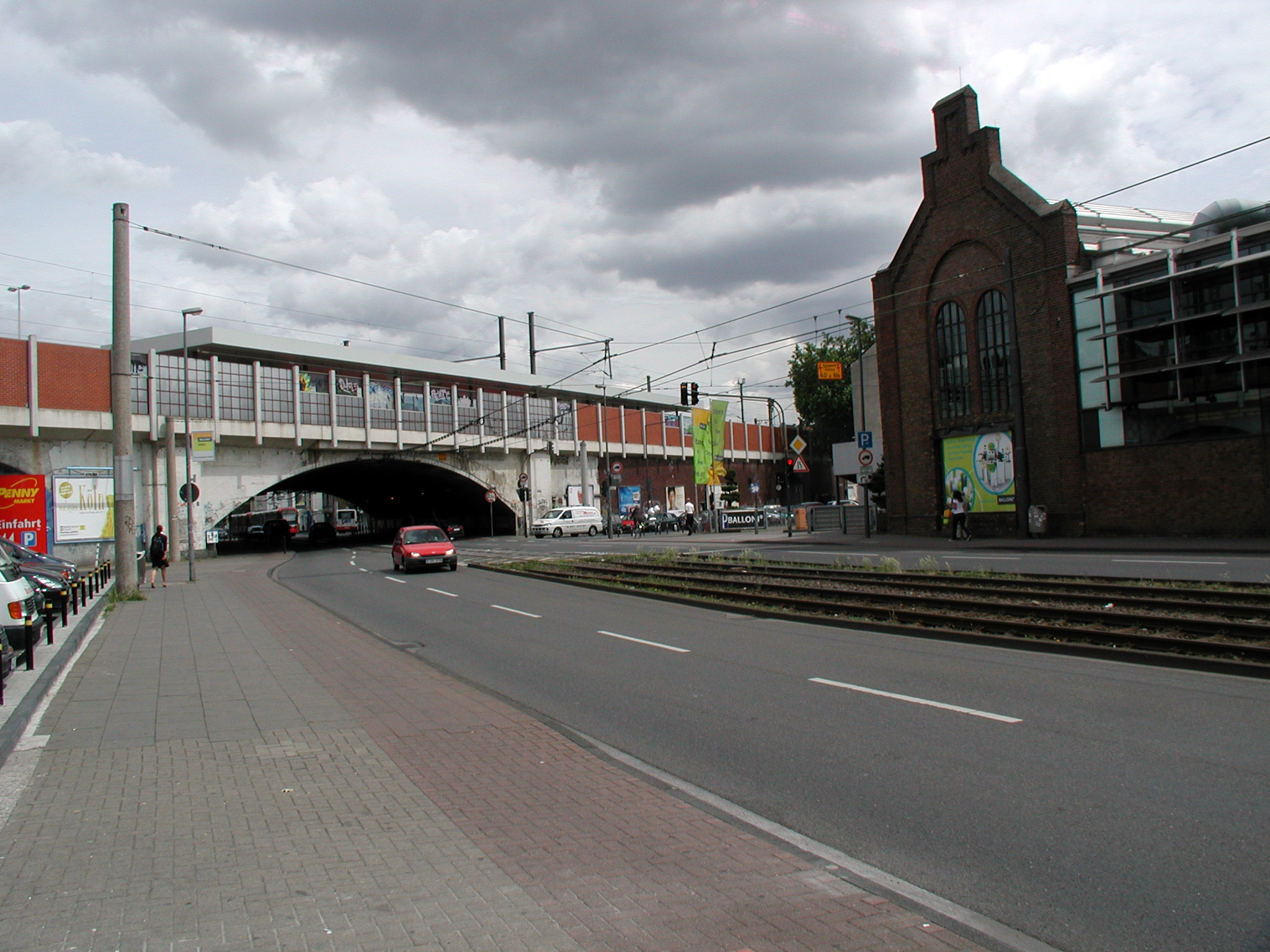 Cologne, railway underpass Ehrenfeldgürtel